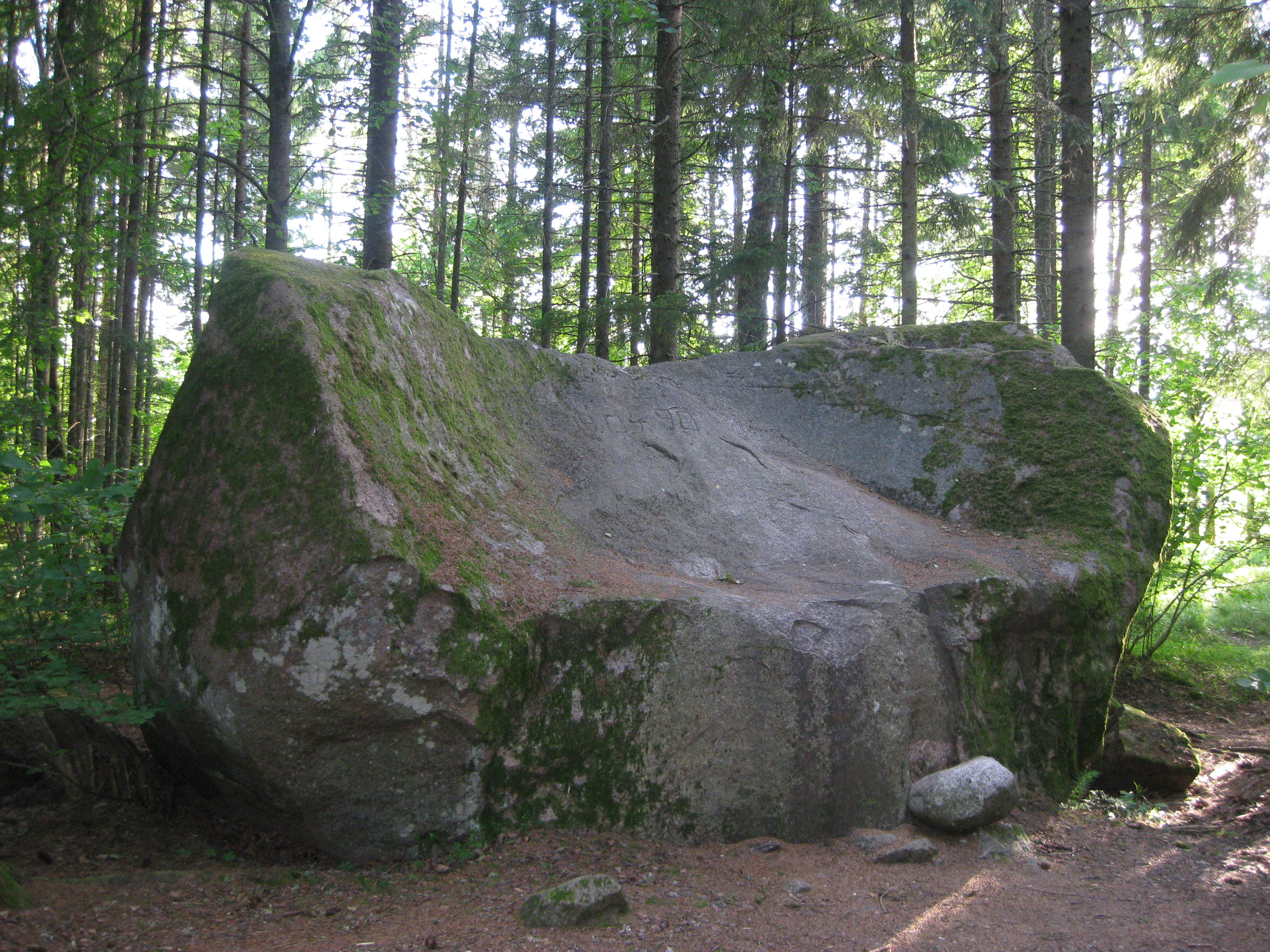 Grīžu Velna beņķis - 14th biggest stone in Latvia